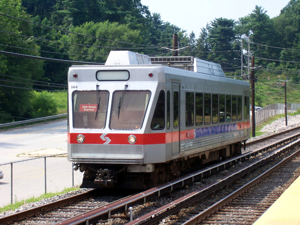 SEPTA N-5 car #144 approaches Gulph Mills Station in Upper Merion, PA, bound for 69 Street.